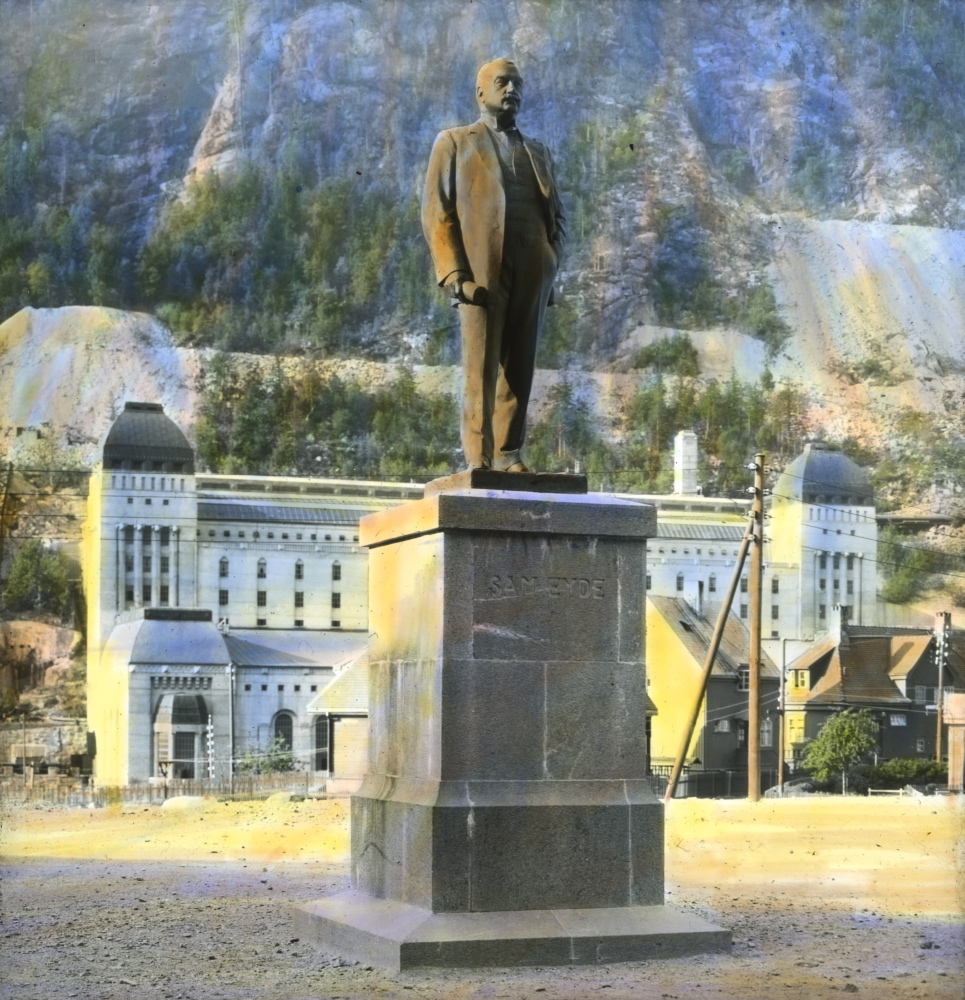 Håndkolorert dias. En statue av Sam Eyde på Rjukan, laget av Gunnar Utsond. Statuen ble avduket på torget i 1920. Bak sees Såheim kraftstasjon.